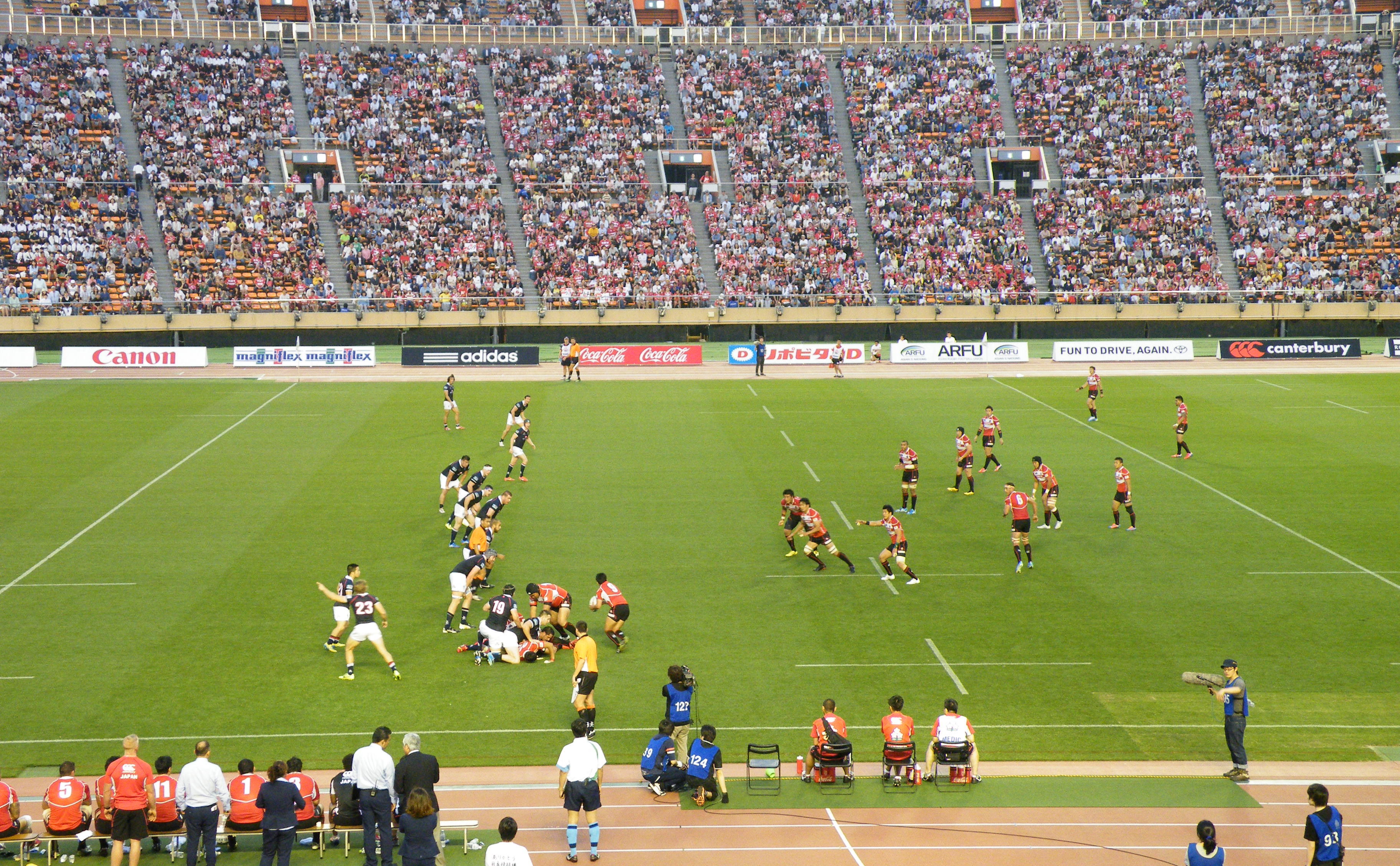 2014 Asian Five Nations, Japan v. Hong Kong (National Olympic Stadium, Japan)